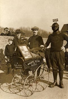 Harry Bensley in West Sussex Original descript.: Man wearing iron mask walking around the world for a £21,000 wager